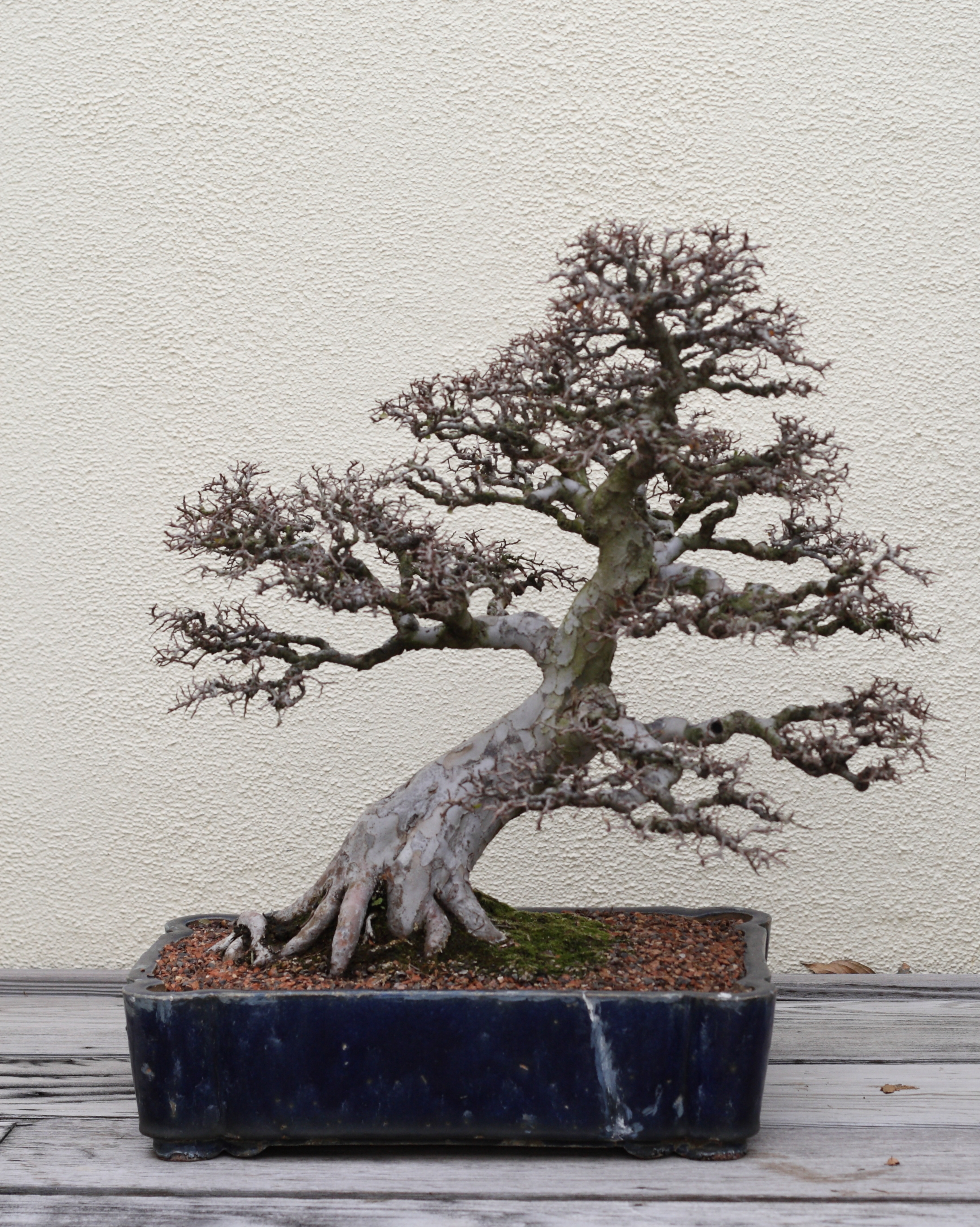 A Chinese Elm (Ulmus parvifolia) bonsai, Chinese Collection 111, on display at the National Bonsai & Penjing Museum at the United States National Arboretum. According to the tree's display placard, it has been in training since 1946. It was donated by Yee-sun Wu.